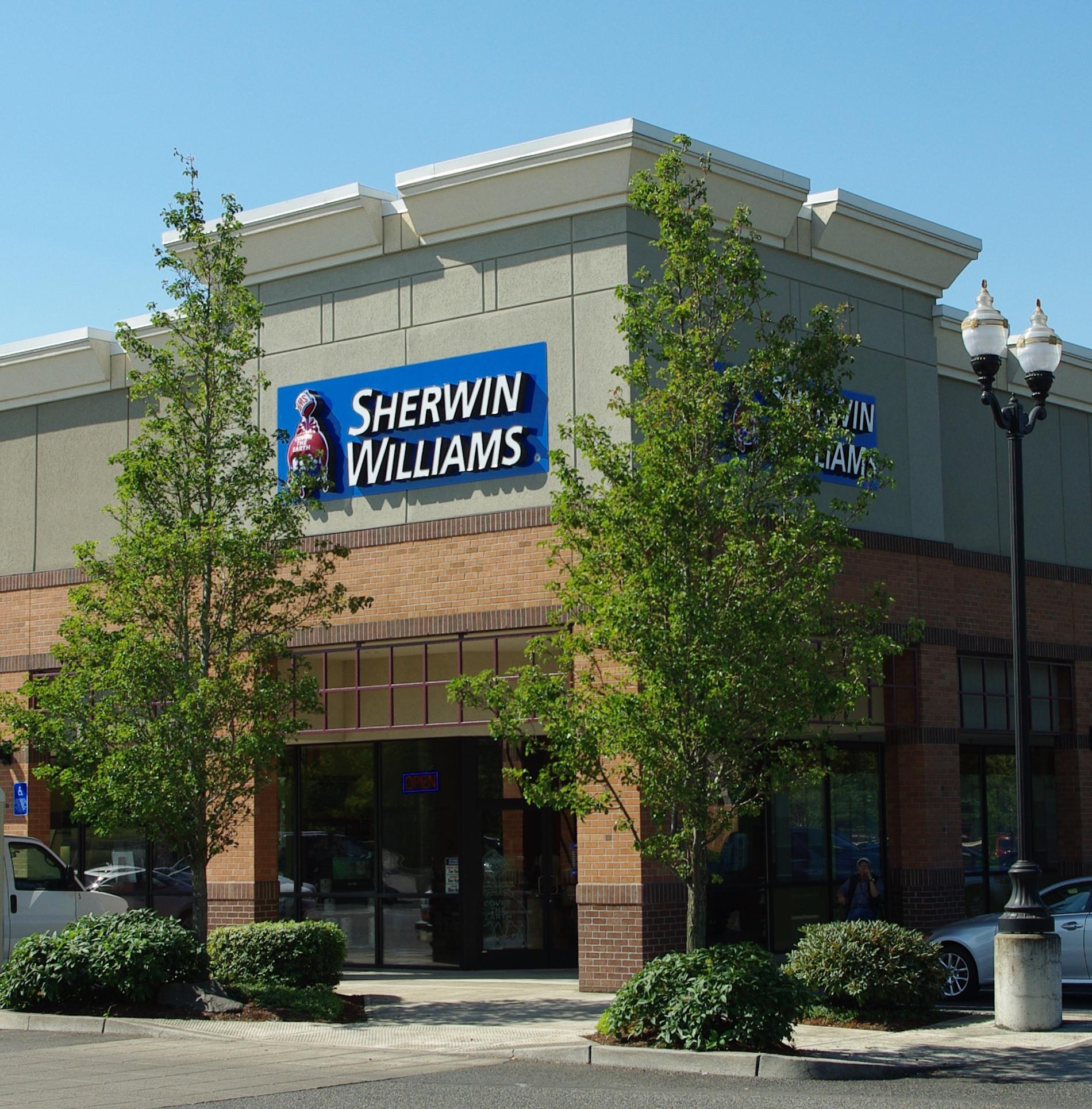 Sherwin Williams at Crossroads at Orenco in Hillsboro, Oregon.